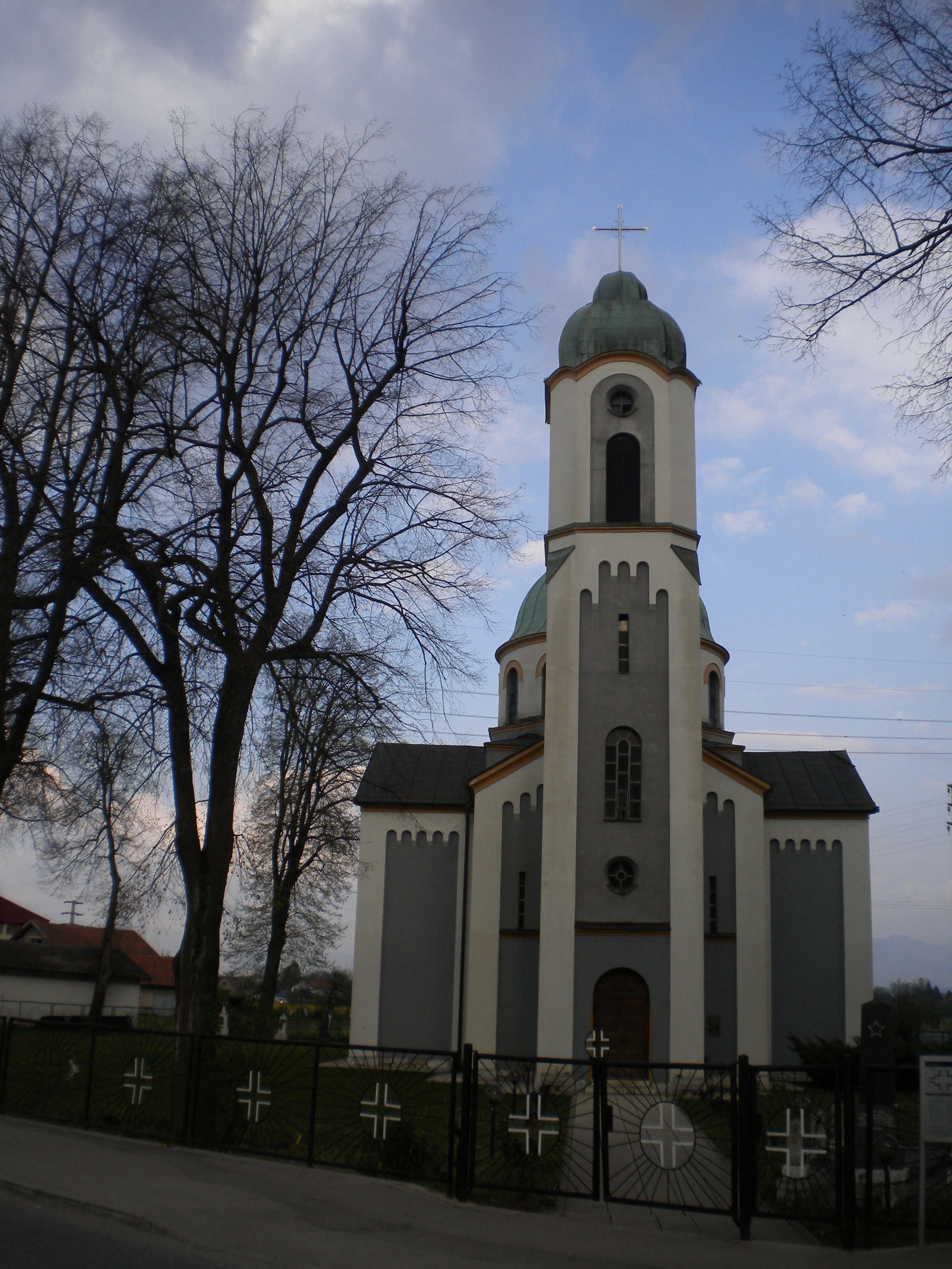 Ilidža church